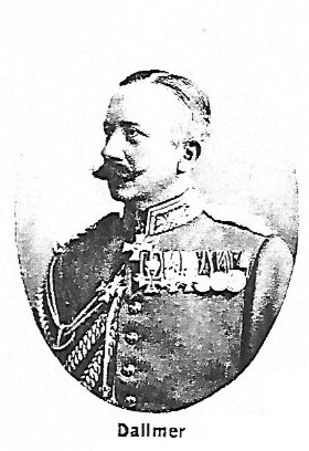 Oberst Dallmer